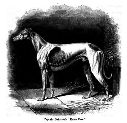 Smooth Greyhound